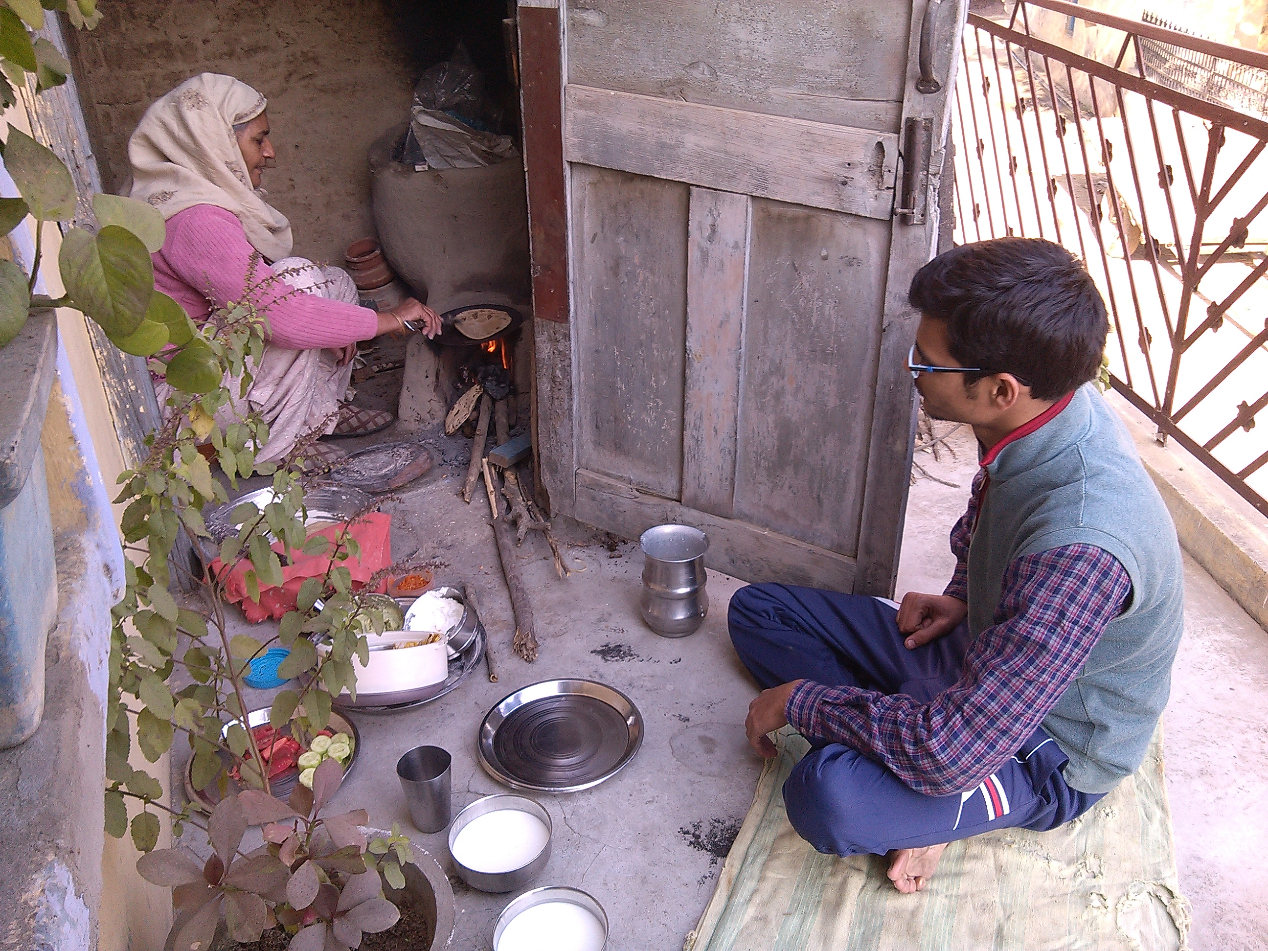 Bua making chapati on traditional chulah